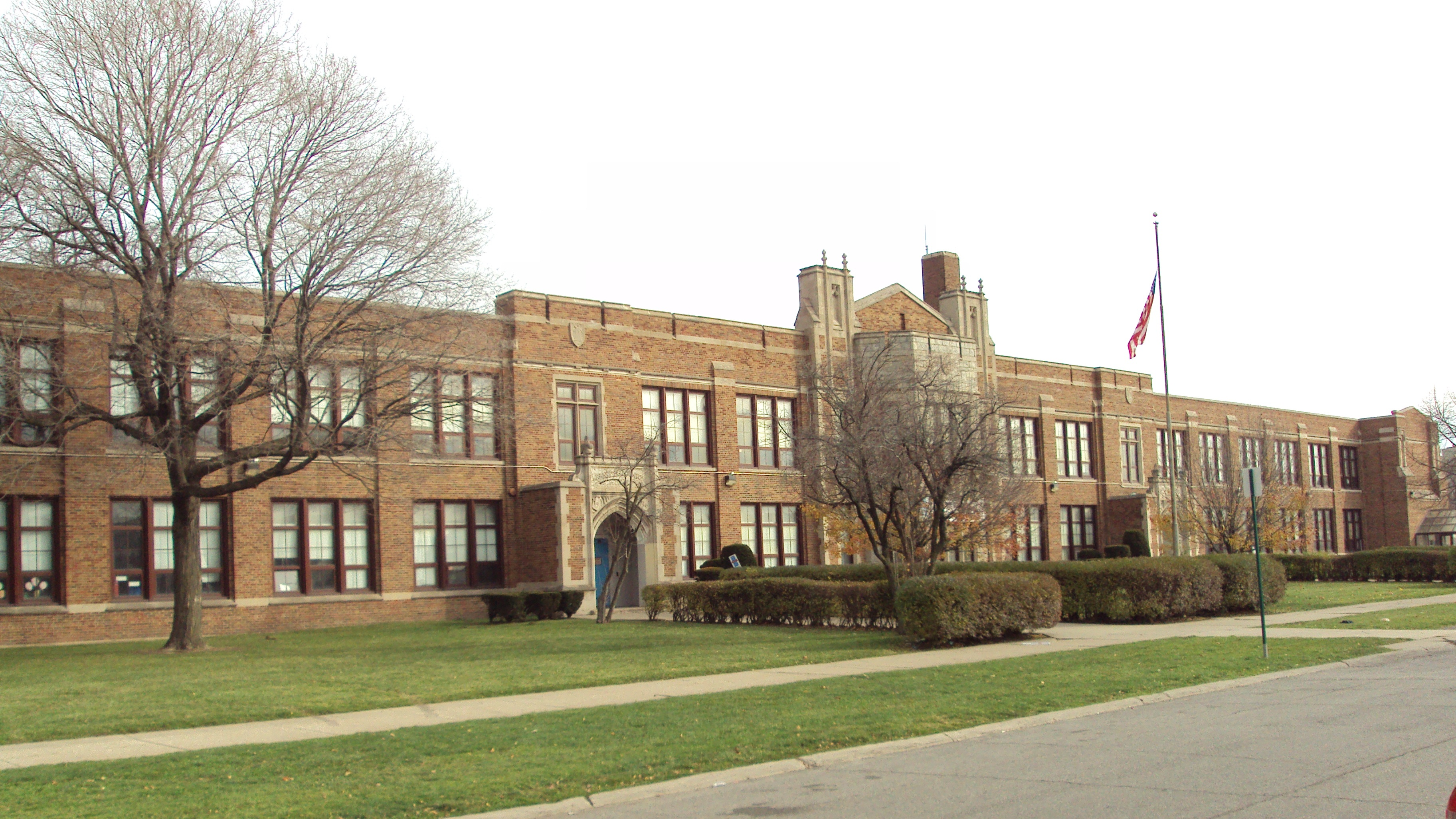 Mark Twain Academy (Detroit)